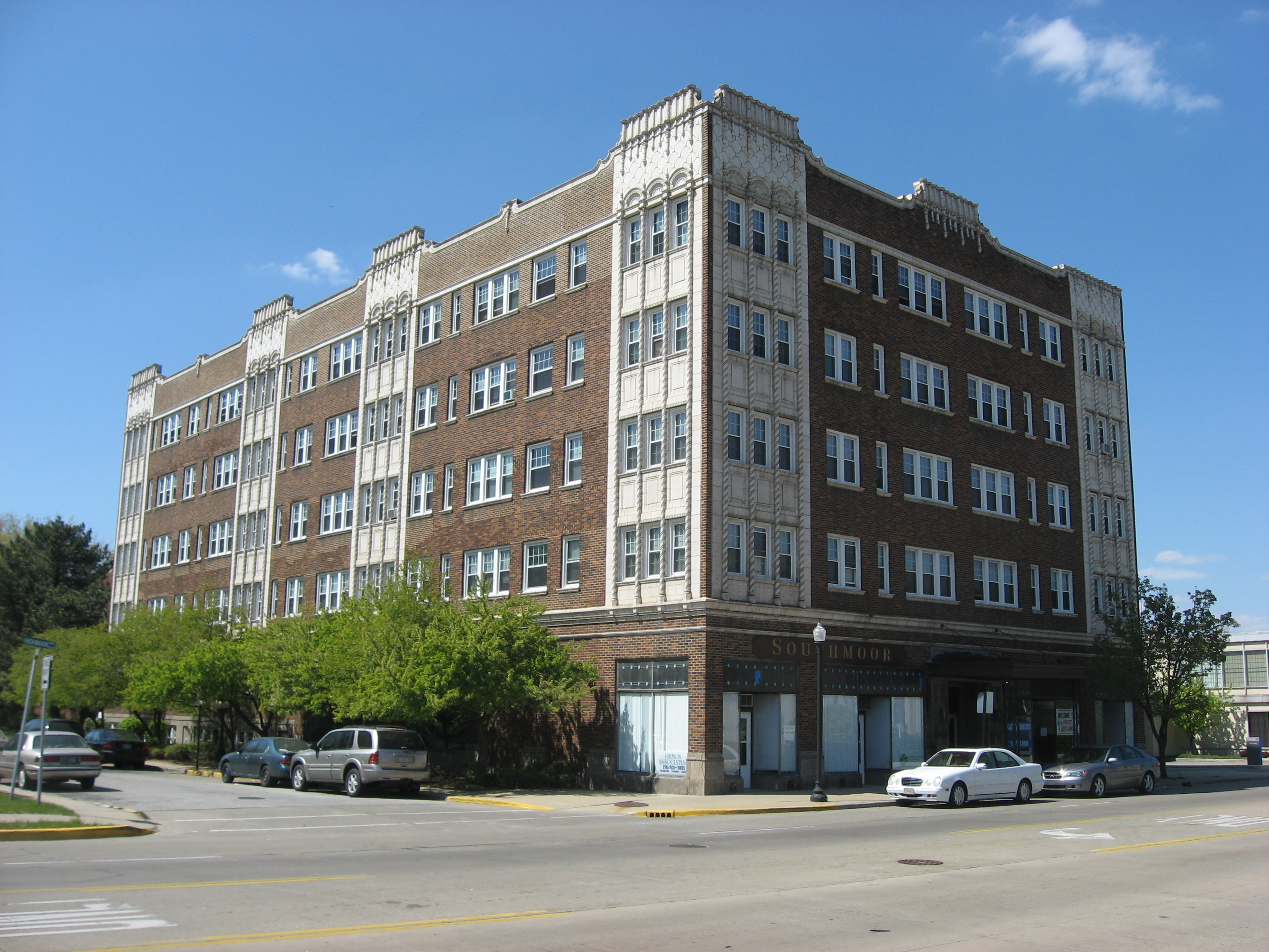 Front and southern side of the Southmoor Apartment Hotel, located at 5946 Hohman Avenue in Hammond, Indiana, United States. Built in 1928, it is listed on the National Register of Historic Places.